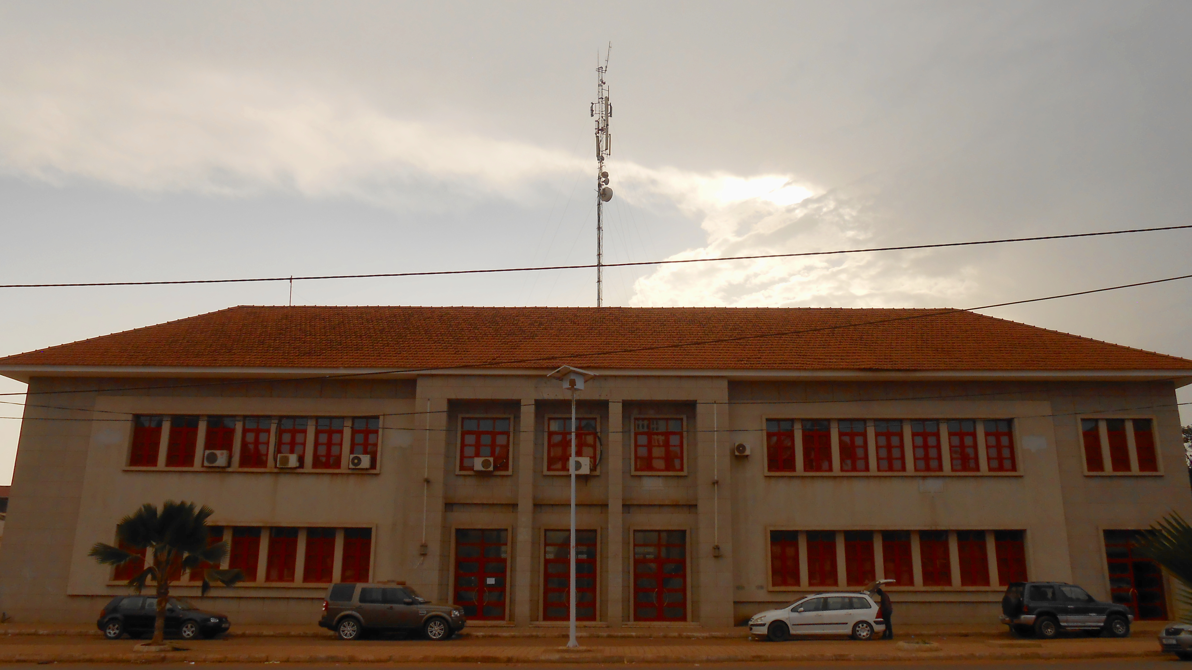 The main post office in Bissau, located right in front of the cathedral.